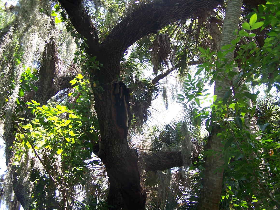 bee hive estero river